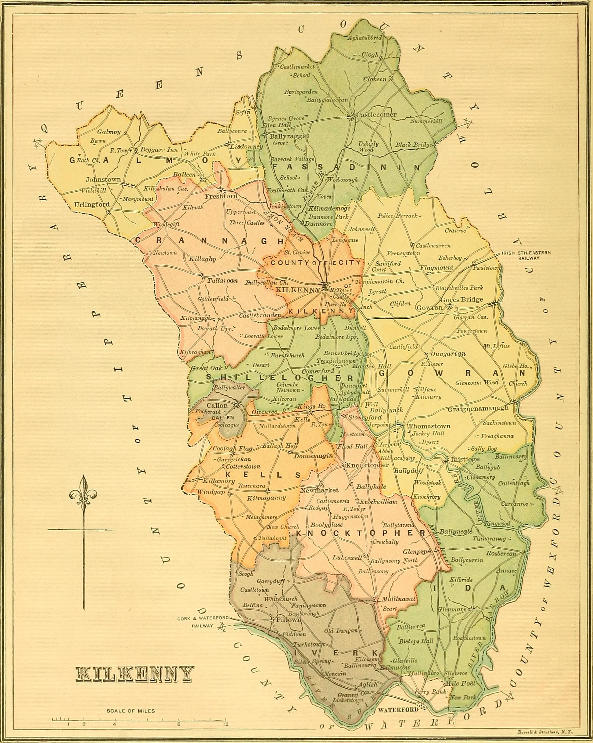 Title: Picturesque Ireland : a literary and artistic delineation of the natural scenery, remarkable places, historical antiquities, public buildings, ancient abbeys, towers, castles, and other romantic and attractive features of Ireland Year: 1885 (1880s) Authors: Savage, John, 1828-1888, ed Subjects: Publisher: New York, T. Kelly Text Appearing Before Image: Copyriglil ISSO by Thomas Kellj-jKew York. Russell & Struthers, Engre N.Y, Text Appearing After Image: Copjrlghl, 1819, by Ihomiu Kelly, Mere Yoit. KILKENNY.